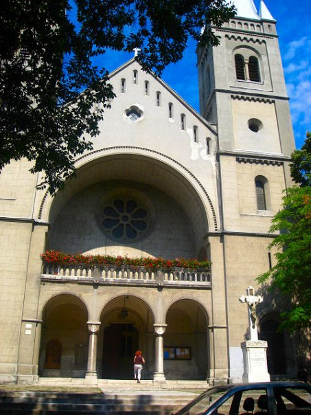 This is a self-made photograph of Franciscan St. Michael church in Subotica Subotica, Serbia.